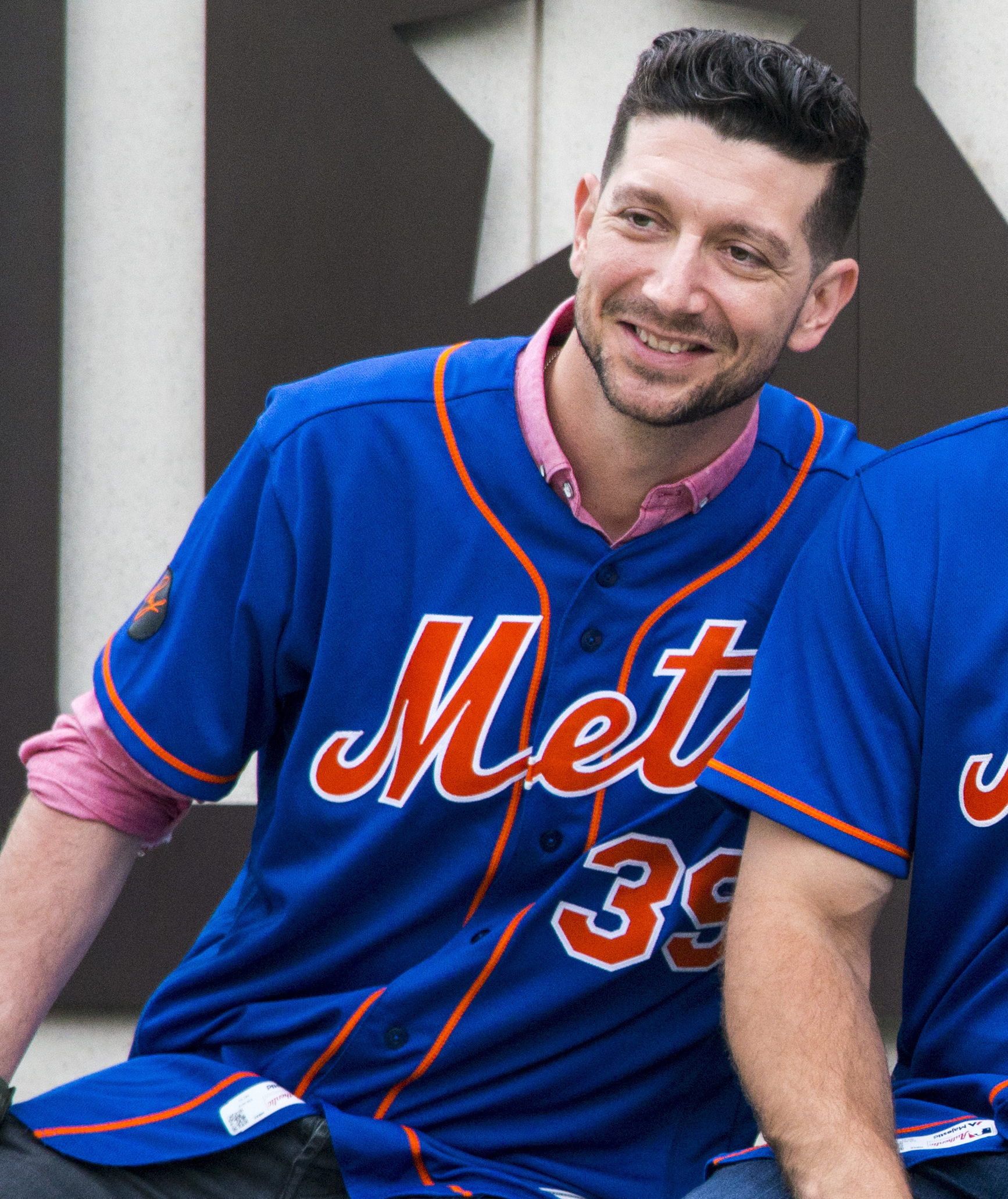 Members of the New York Mets posed with an Army Soldier in front of the United Service Organizations (USO) Warrior and Family Center at Naval Support Activity Bethesda, July 31. The New York Mets visit to the USO was open to all active duty personnel and their dependents. (U.S. Navy photo by Mass Communication Specialist 3rd Class Julio Martinez Martinez)